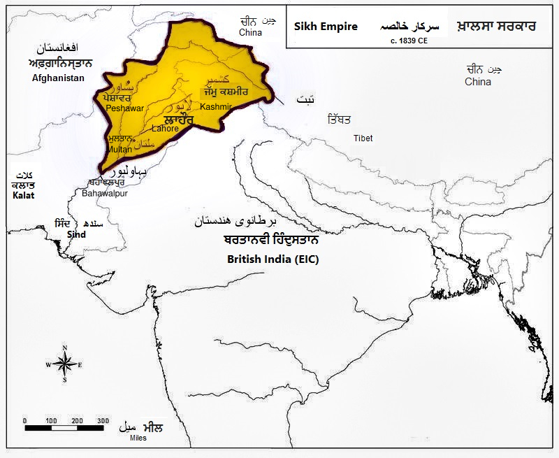 Sikh empire map with labels in Gurmukhi, Roman and Arabic/Urdu scripts. This is only an approximation of the territorial extent of a historic state based on available historic sources. Derived from an existing work